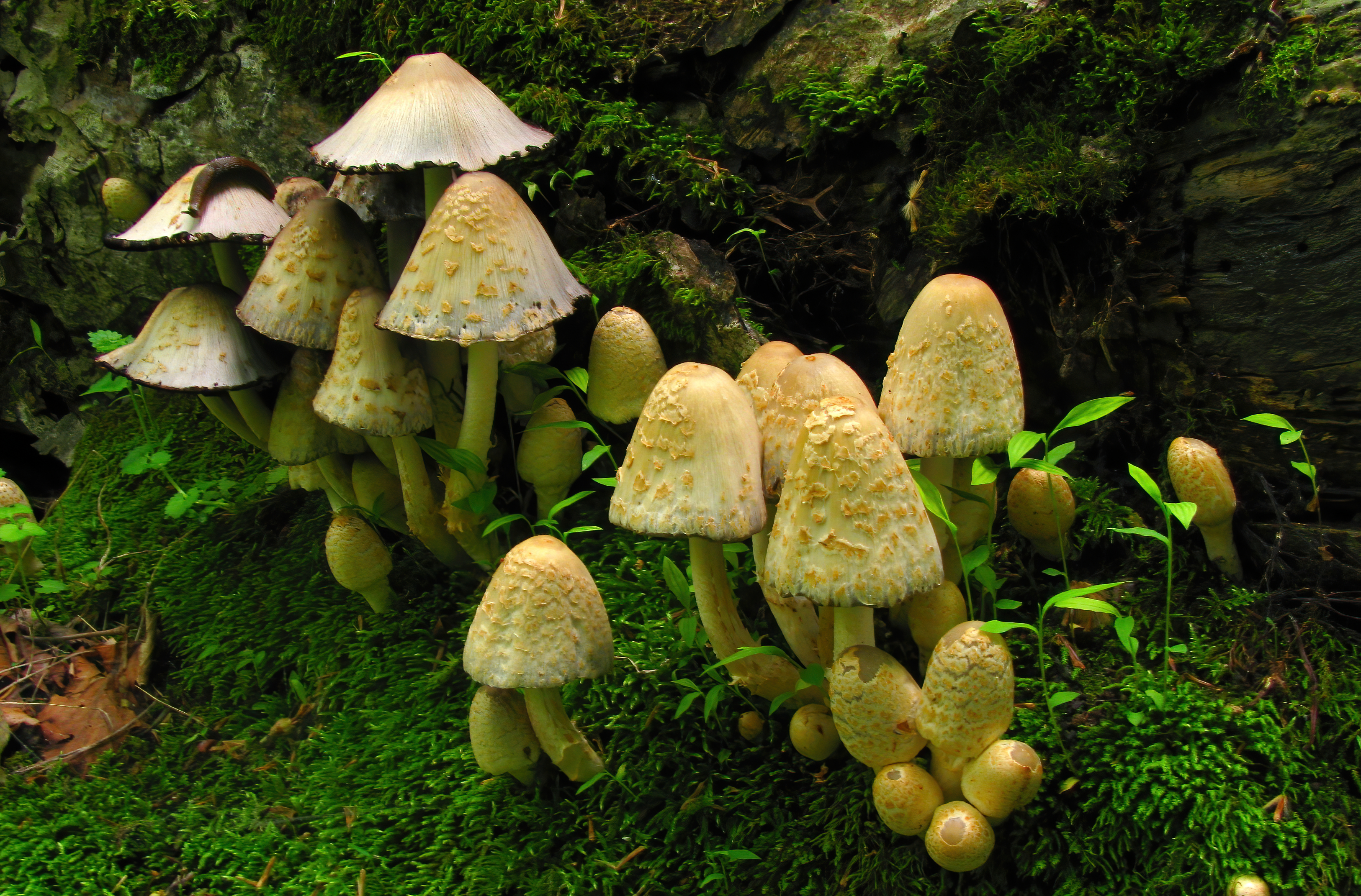 The fungus Coprinopsis variegata (Peck) Redhead, Vilgalys & Moncalvo. Specimens photographed in North Bend State Park, West Virginia.